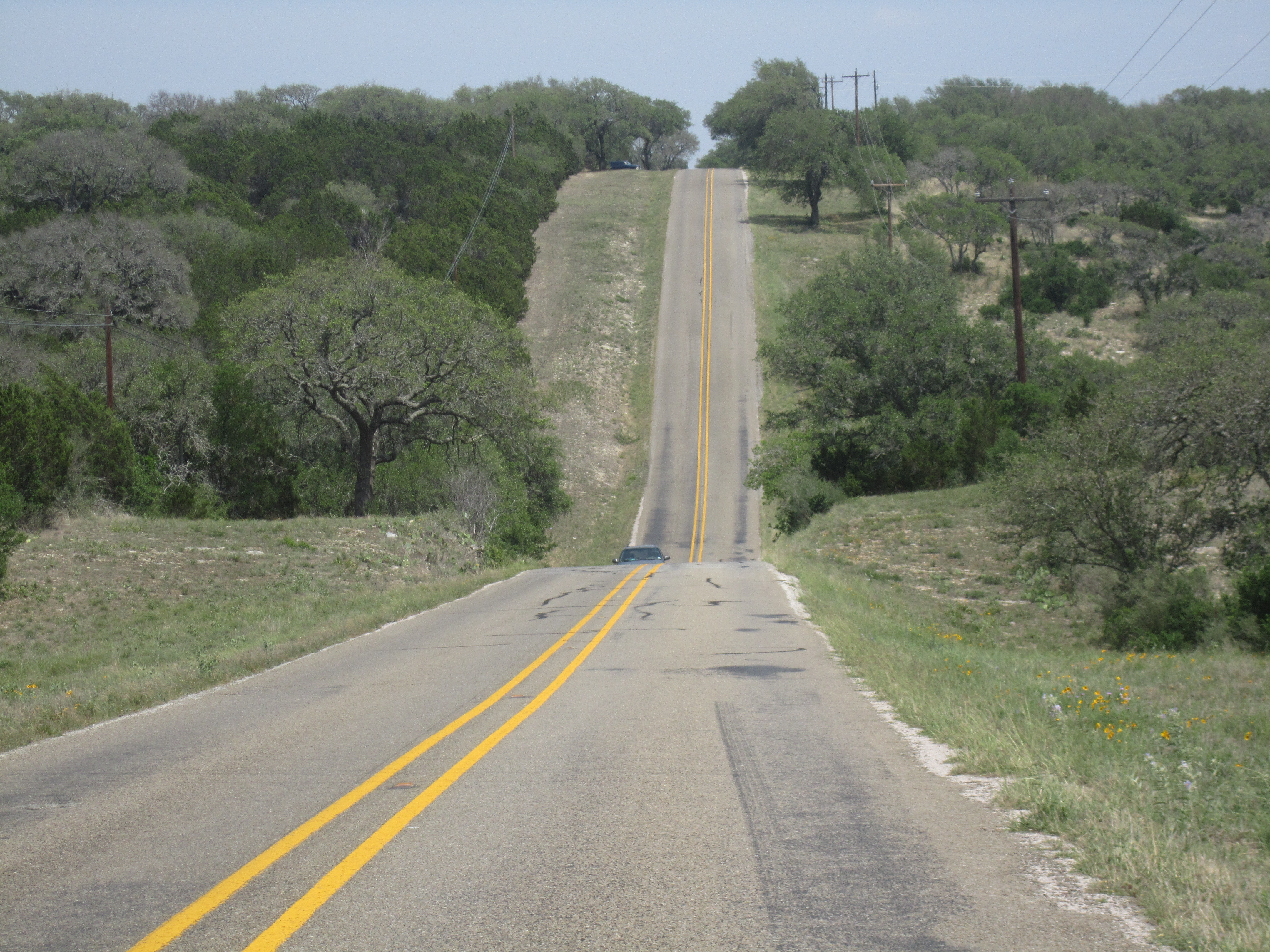 I took photo with Canon camera in Burnet County, TX.